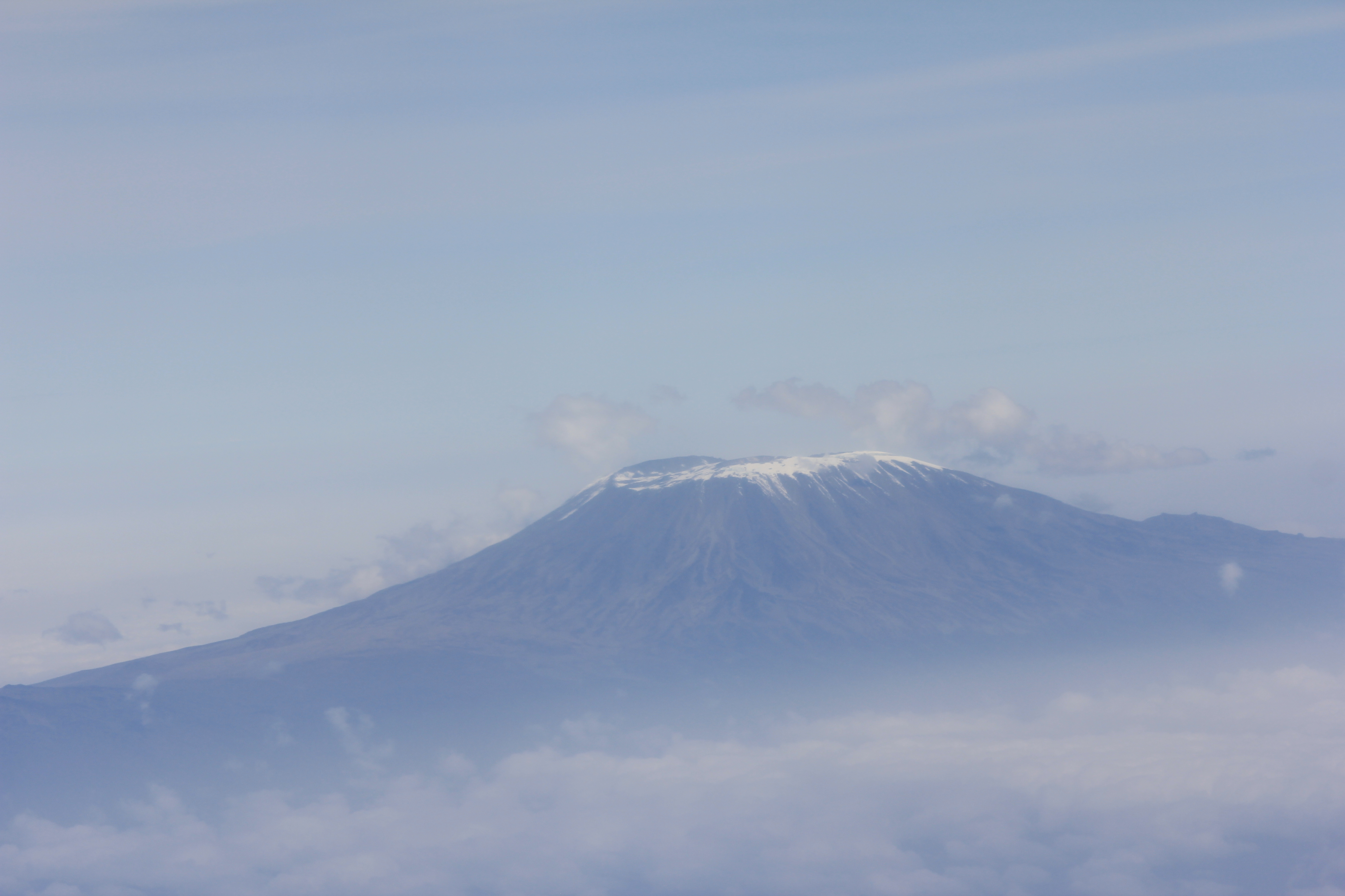 View of Mount Kilimanjaro